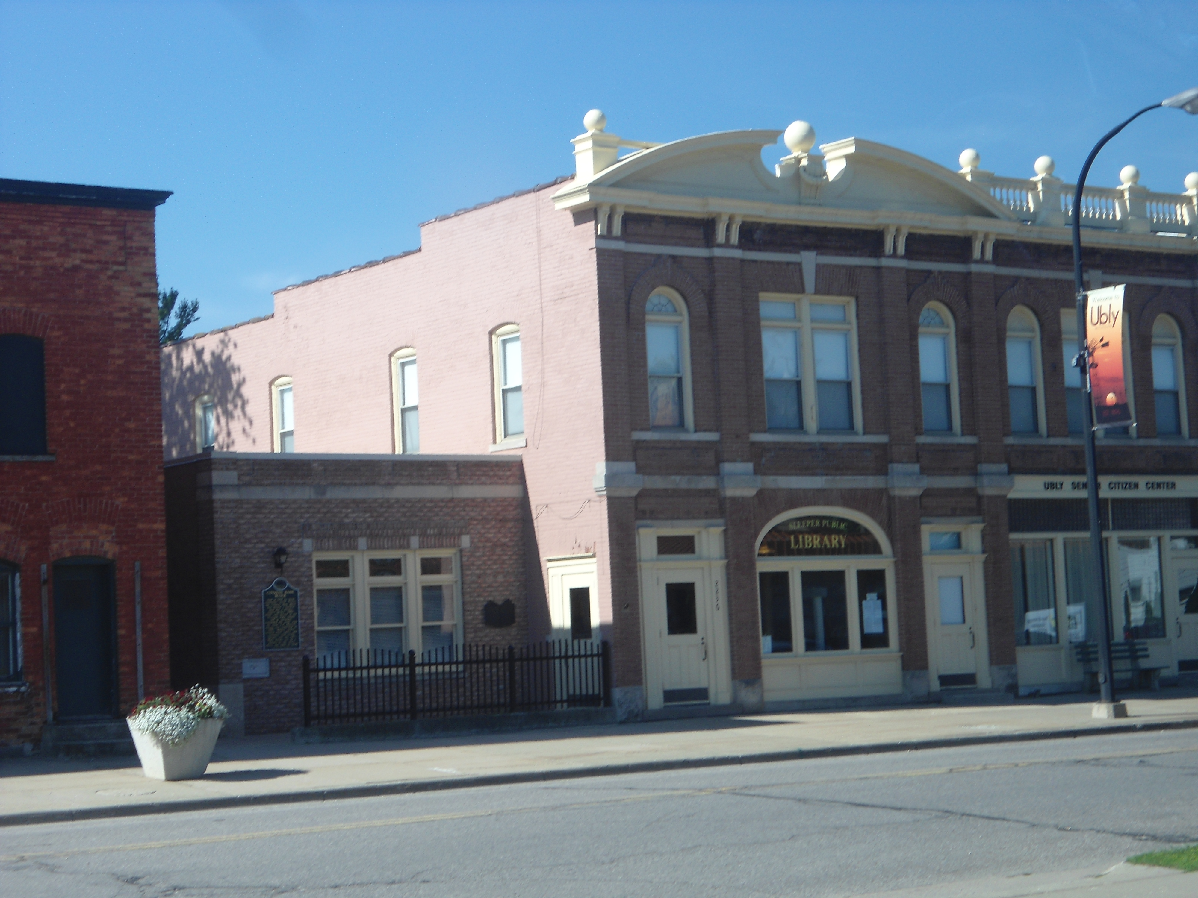 Atwater Road in Ubly, Michigan